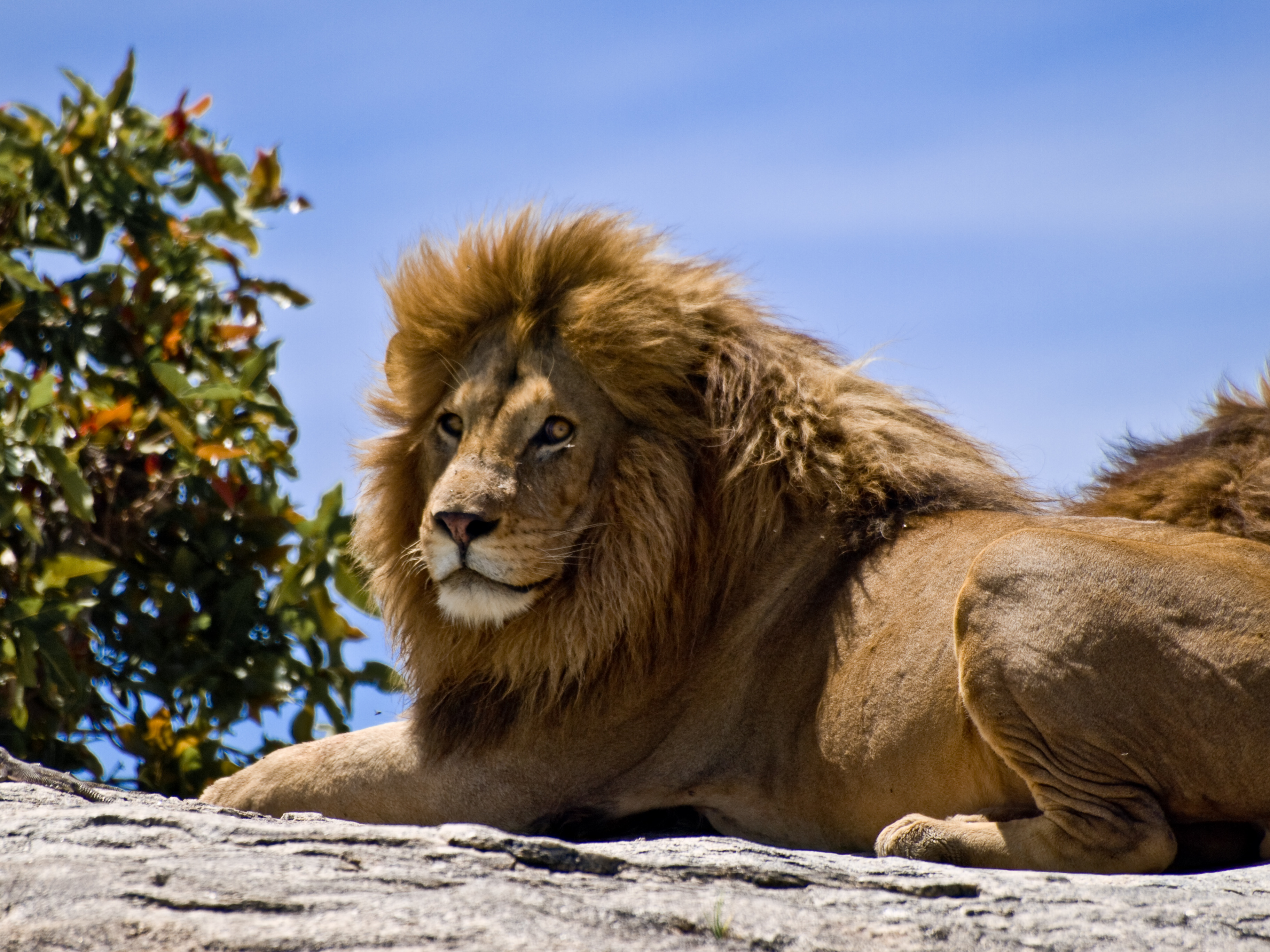 Portrait of a male lion basking in the sun on a rocky outcrop in the Serengeti National Park, Tanzania.